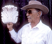 Earl Barthé with one of his decorative plaster works